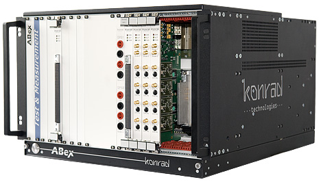 ABex 188 slot Chassis